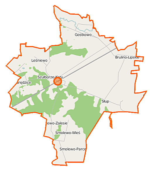 Map of Gmina Szulborze Wielkie, Poland This map of Szulborze Wielkie (gmina) was created from OpenStreetMap project data, collected by the community. This map may be incomplete, and may contain errors. Don't rely solely on it for navigation. Border coordinates52.806522.1732←↕→22.317452.7097